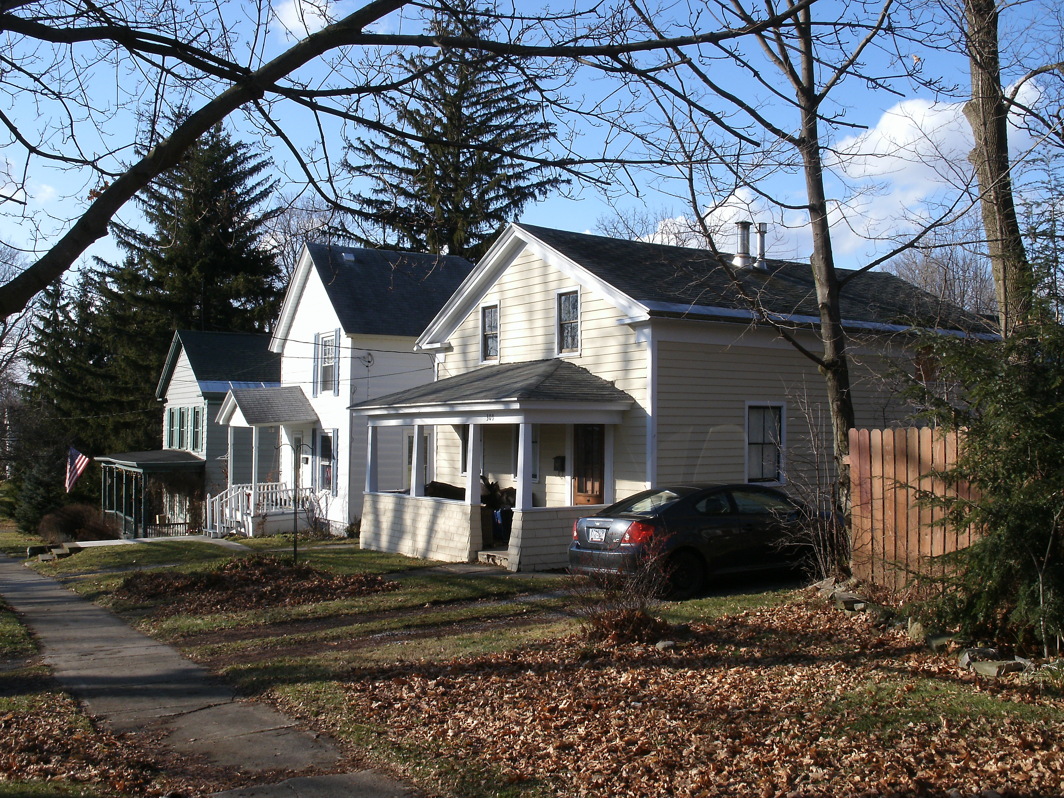 Homes along Pleasant Street, within the Manlius Village Historic District, in Manlius, New York